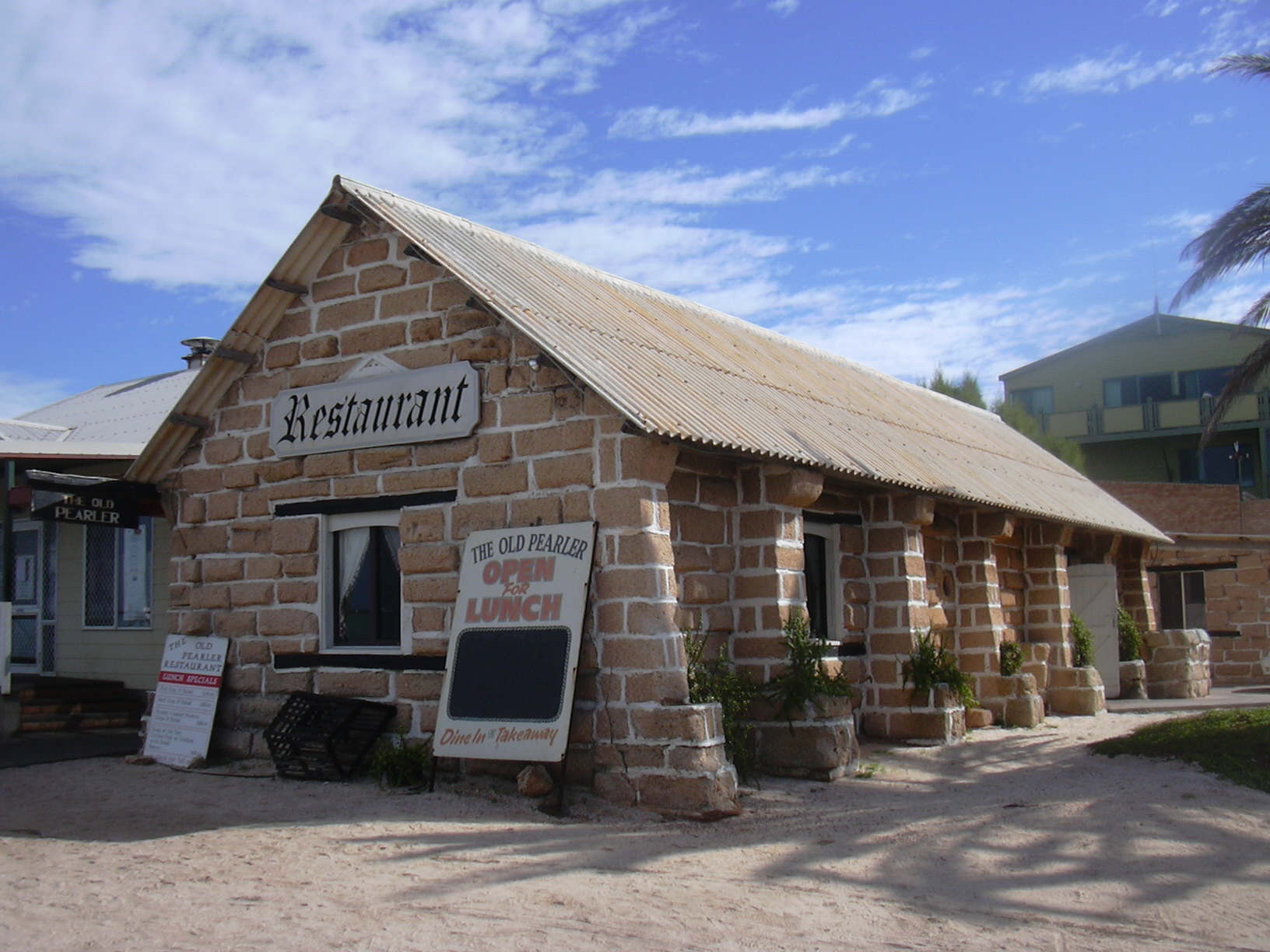 Denham, restaurant built in coquina, Shark Bay/Western Australia